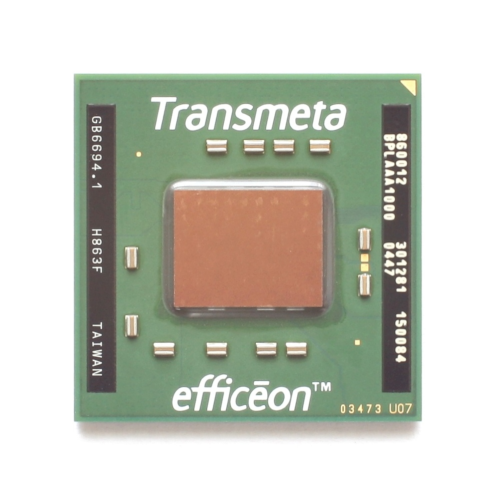 CPU Transmeta Efficeon TM8600.